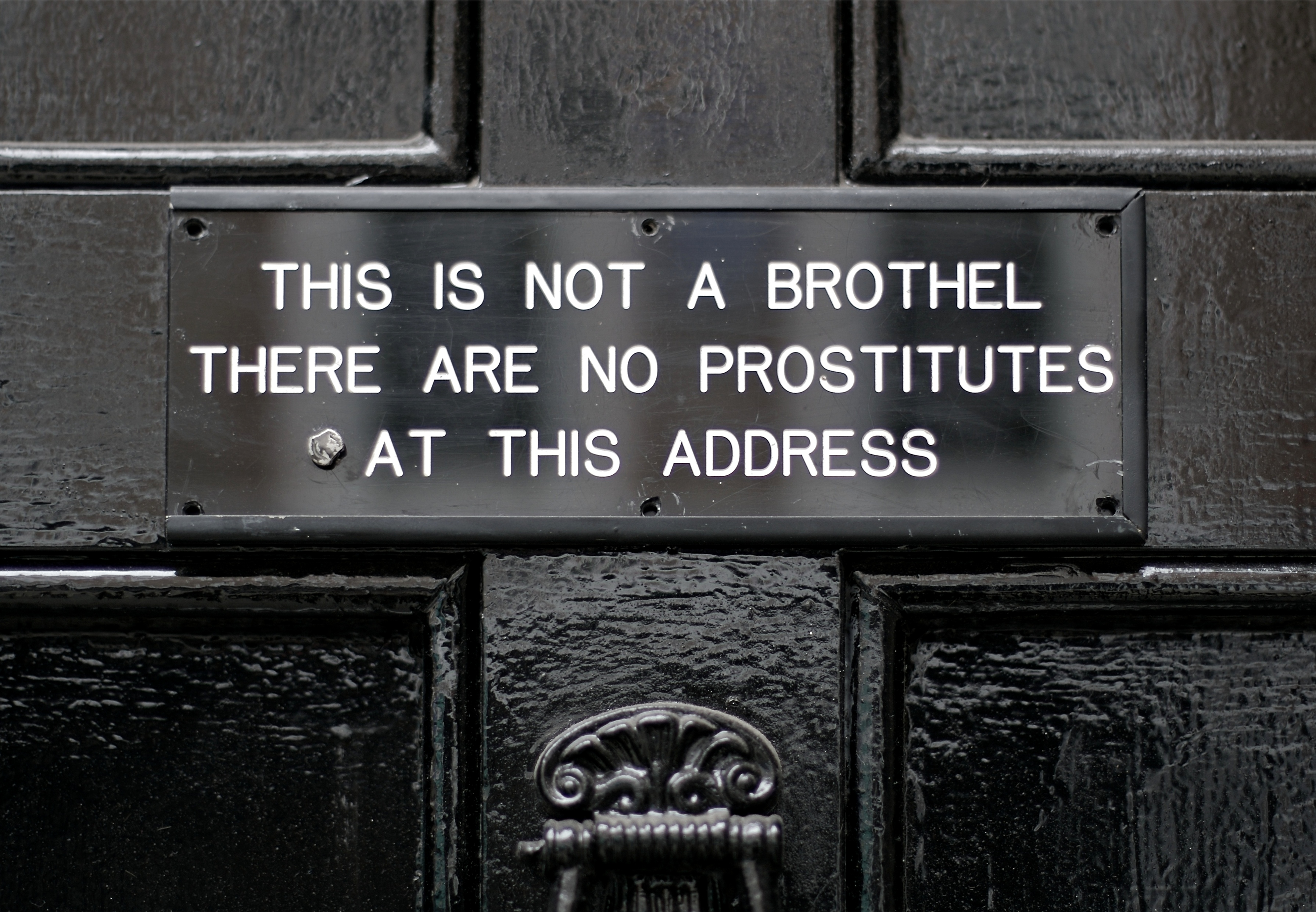 Sign on door to the home of Sebastian Horsley, at 7 Meard Street, London. Black sign on black door, sign reading: THIS IS NOT A BROTHEL THERE ARE NO PROSTITUTES AT THIS ADDRESS